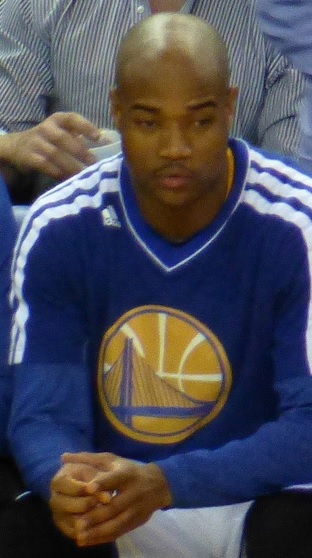 David Lee and Andrea Bargnani, Toronto Raptors at Golden State Warriors March 4, 2013